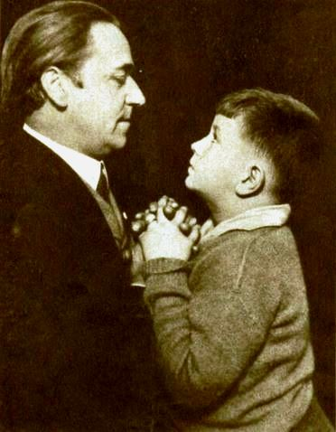 American actor Noah Beery, Sr. and his son Noah Beery, Jr. on page 6 of the March 30, 1922 Silverscreen magazine.